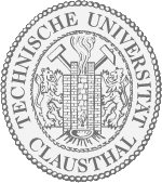 Coat of arms of the Clausthal University of Technology